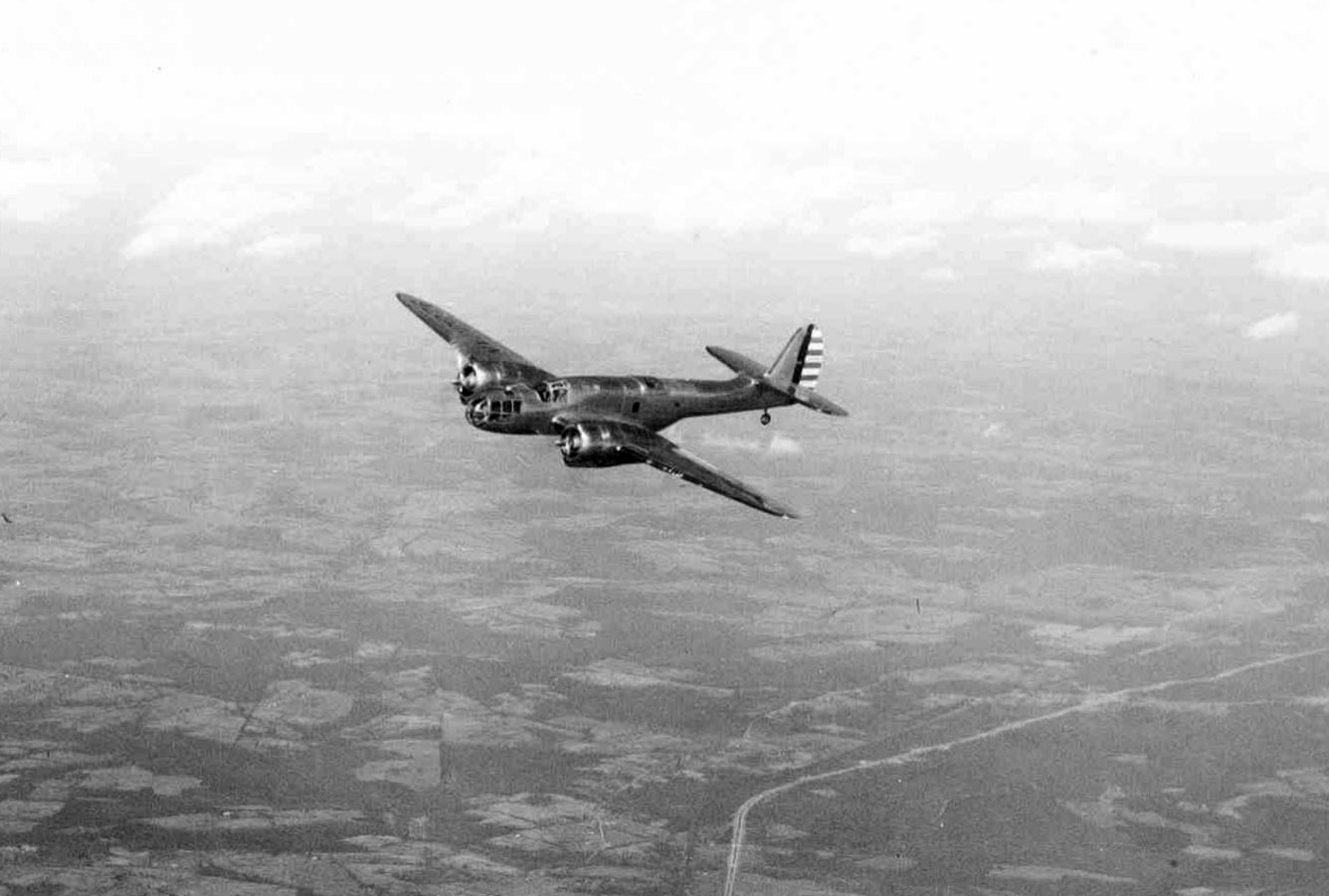 The Martin XA-22 prototype in flight in 1939. Although losing the USAAF competition against the Douglas A-20, the type was ordered by the French government as the Martin 167F. After the fall of France in June 1940 the French orders were taken over by the British which used the type as the Martin Maryland Mk I.